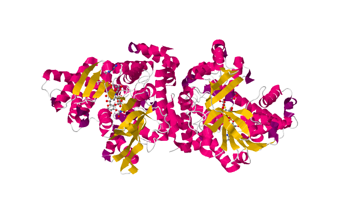 From Thermotoga Maritima Beacteria